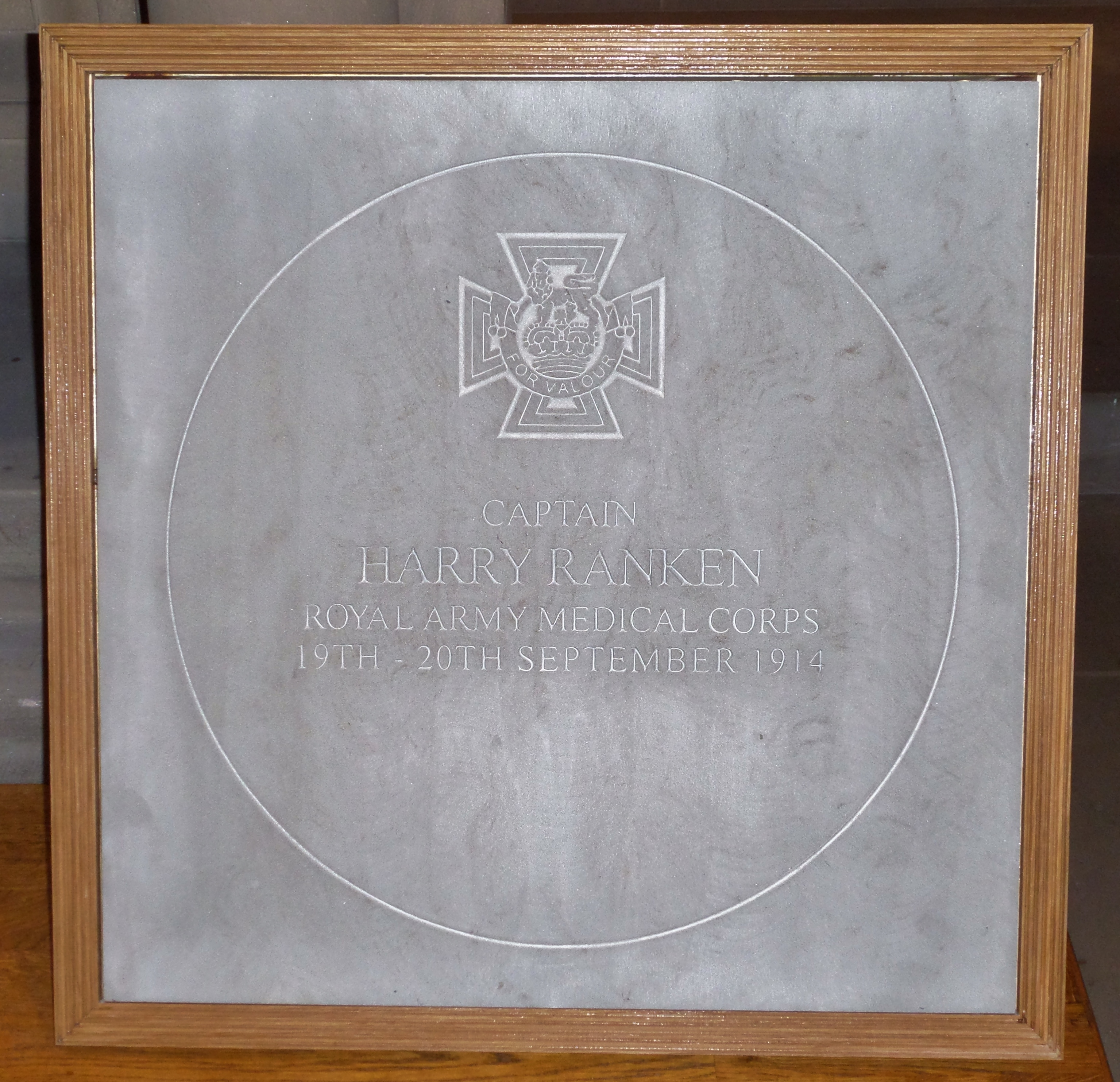 Engraved and framed stone plaque commemorating Captain Harry Ranken VC in the University og Glasgow Chapel, Scotland.